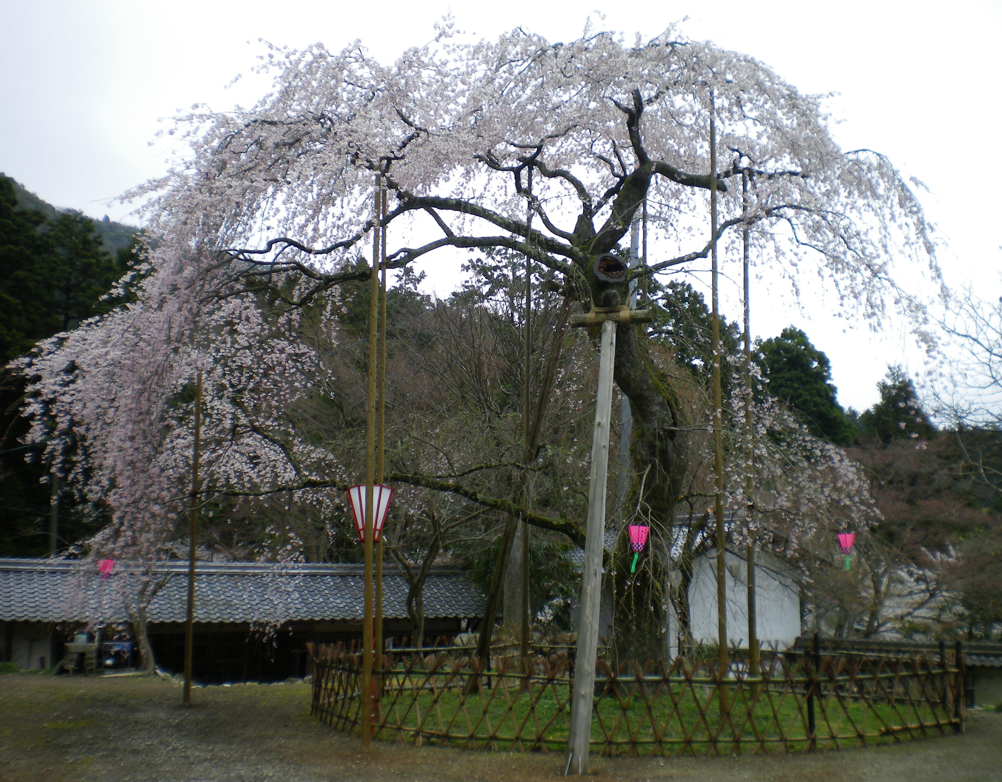 Tokugen-in's cherry blossom